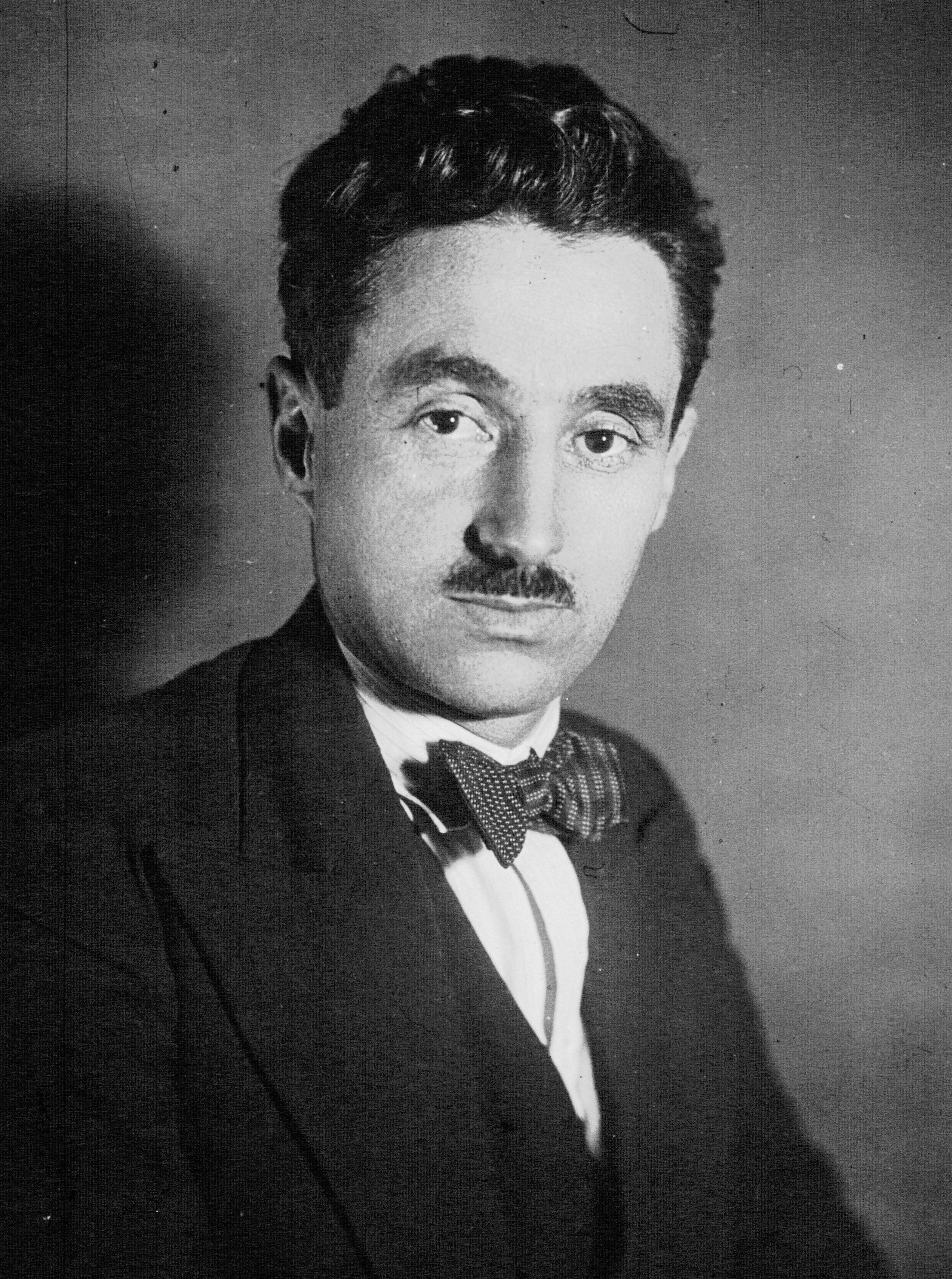 French politician Camille Ferrand (1892-1963).